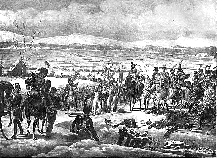 Battle of Pułtusk 1806